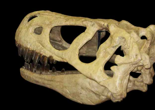 Replica of skull of Tarbosaurus in exhibition in Biological museum in Moscow. The skull is mostly a reconstruction.[1]